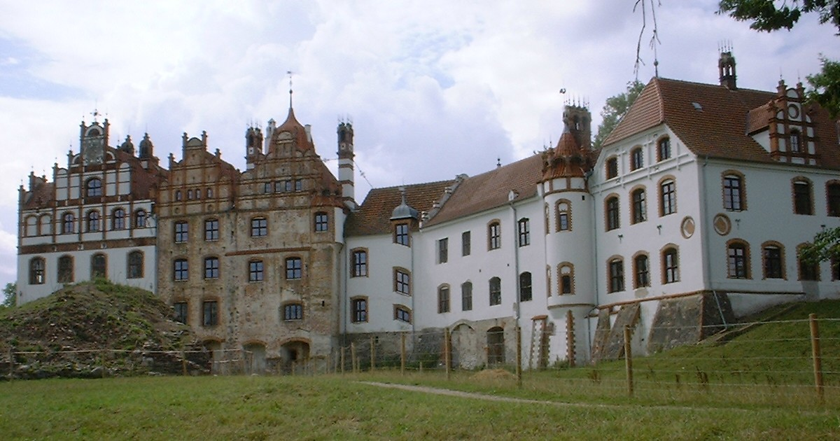 Castle in Basedow in Mecklenburg-Western Pomerania, Germany